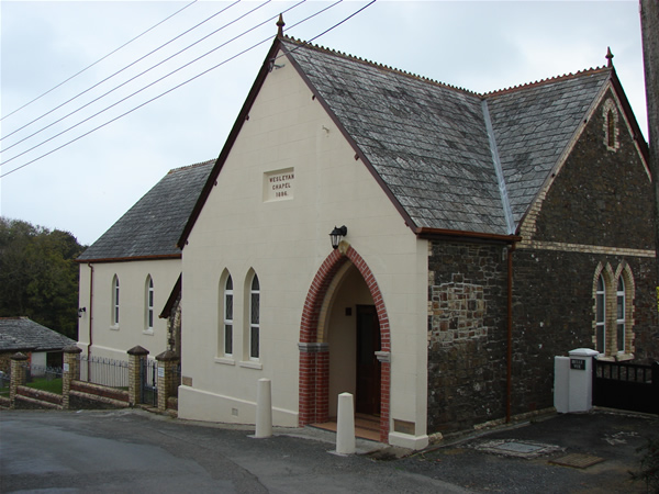 Chilsworthy Chapel In good order and very much in use.